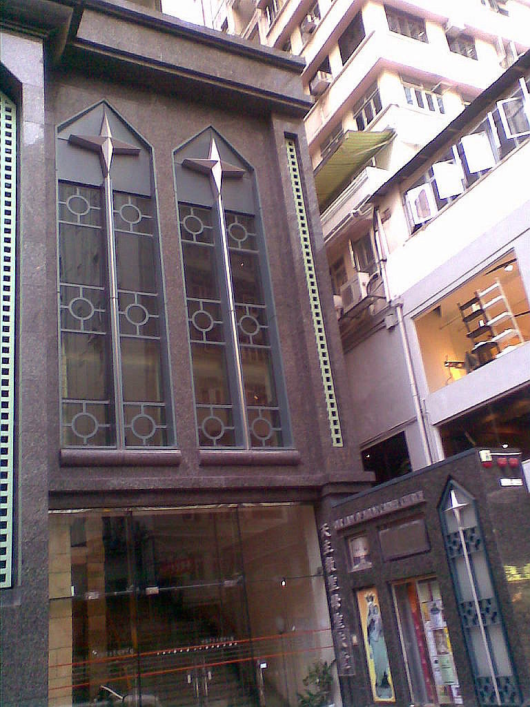 Wan Chai, Our Lady of Mt Carmel Church 中文（香港）: 灣仔, 聖母聖衣堂